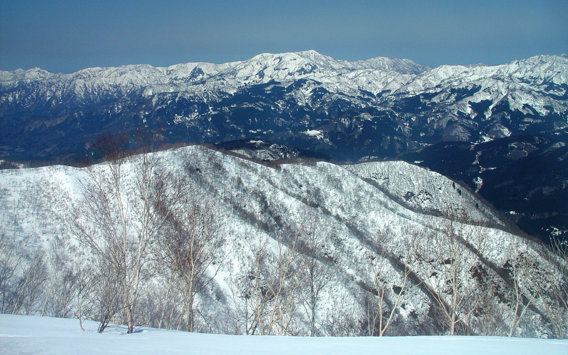 Mount Dainichi seen from Mount Hōonji